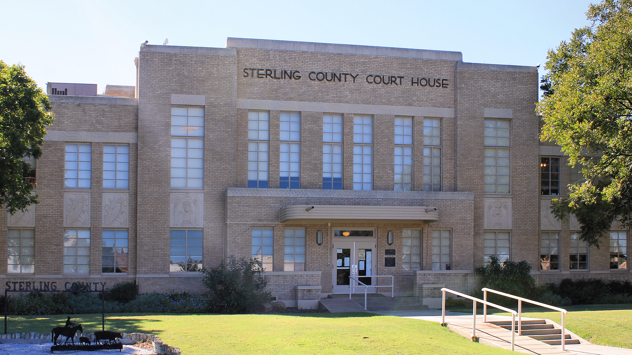 The Sterling County Courthouse in Sterling City, Texas, United States was built in 1938.